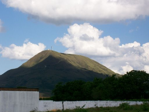 Serra da Tormenta